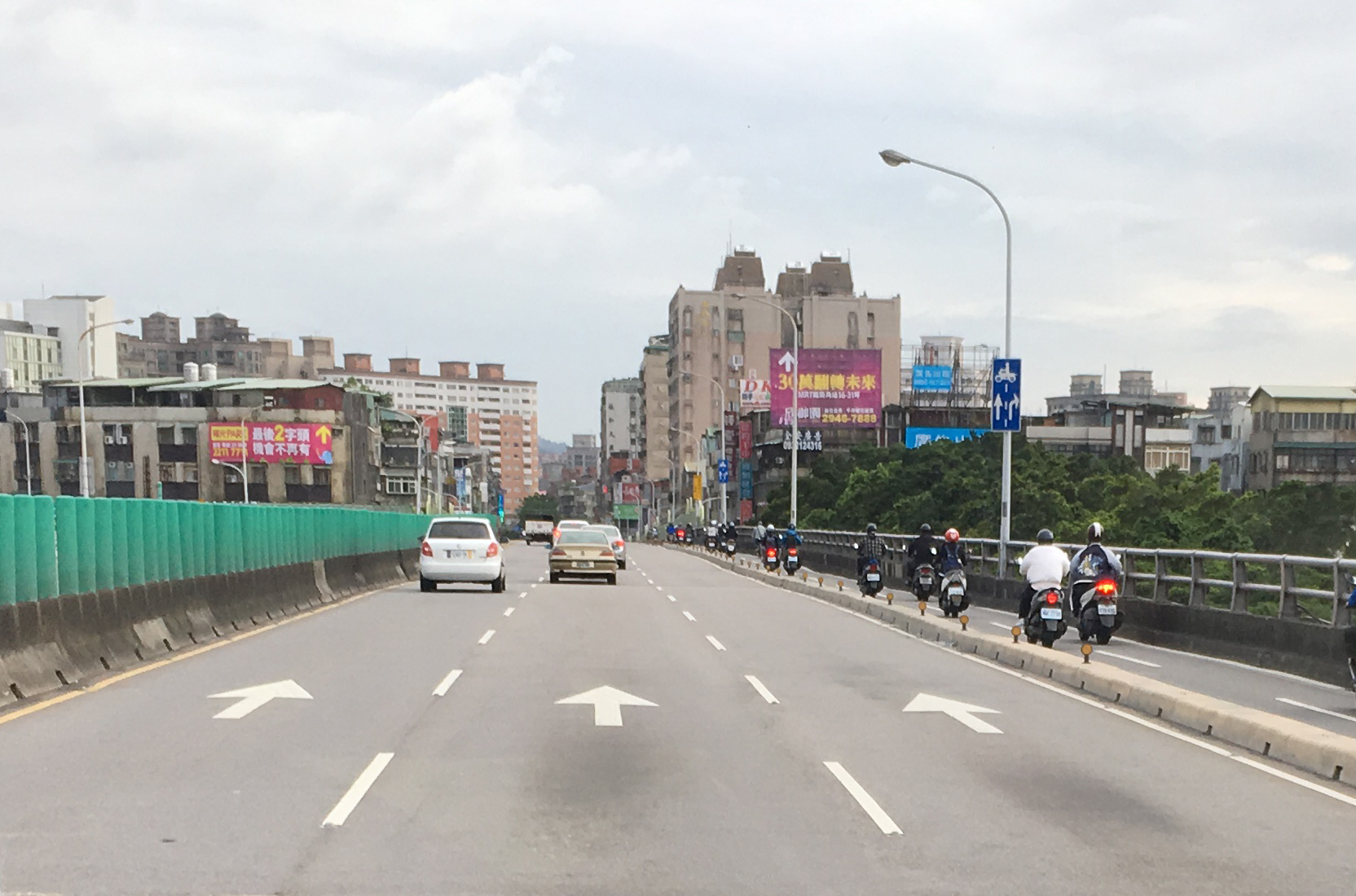 Lane on Fuhe Bridge bound for Yonghe in New Taipei, Taiwan